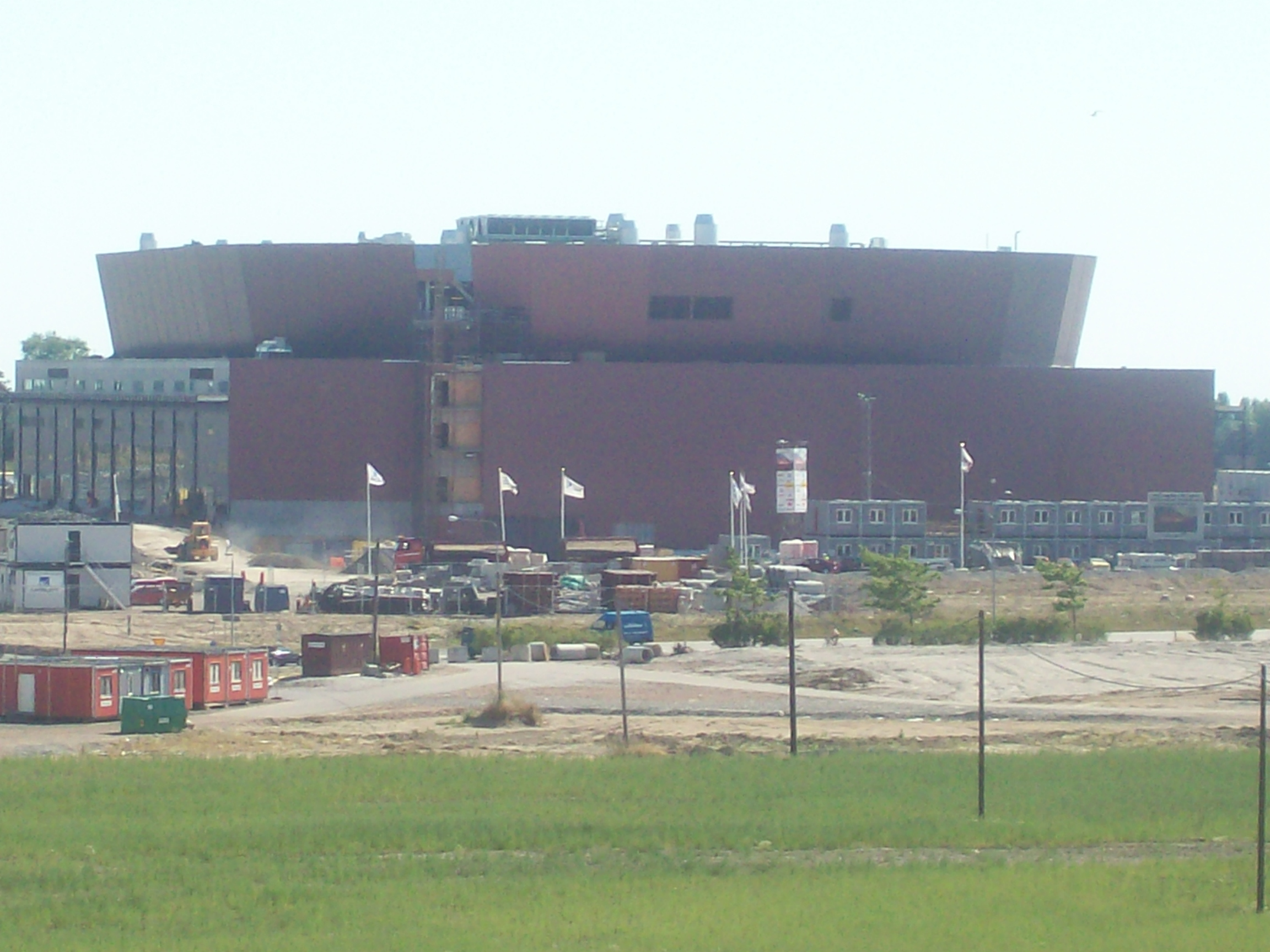 Malmö Arena under construction on July 31st, 2008.